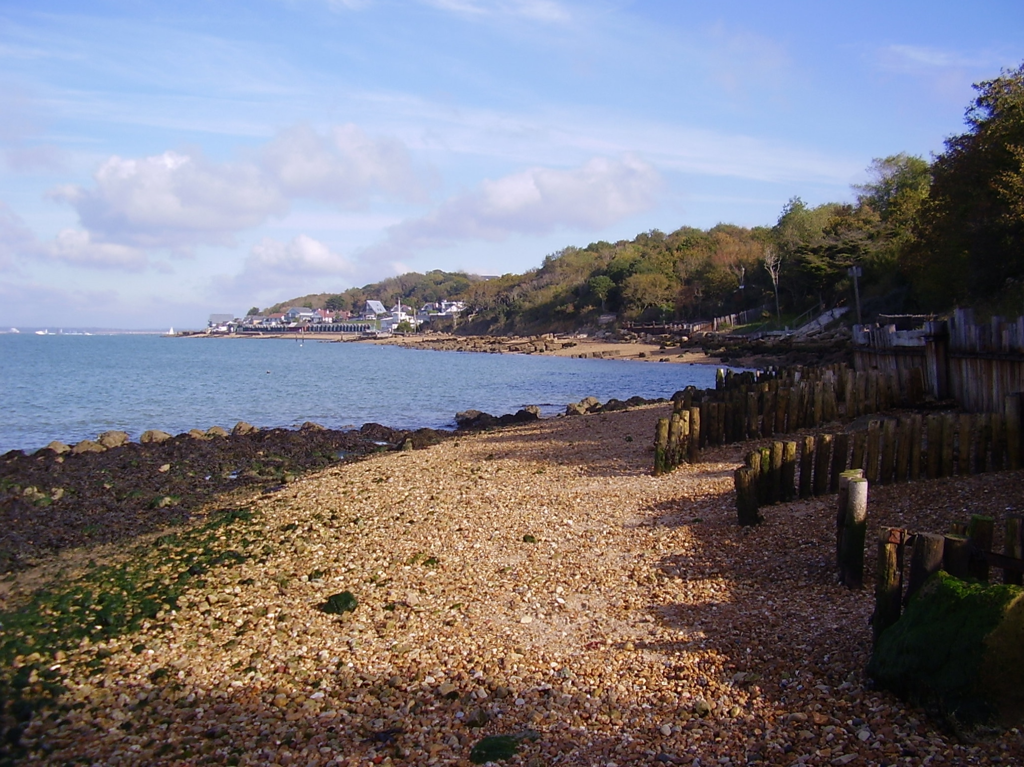 Gurnard Bay, Isle of Wight, UK